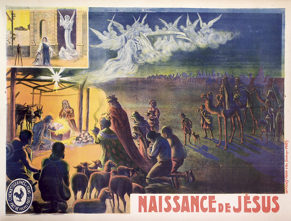 Poster by Candido Faria for 'Vie et passion de notre seigneur Jésus-Christ', a French silent movie by Ferdinand Zecca and Segundo de Chomón